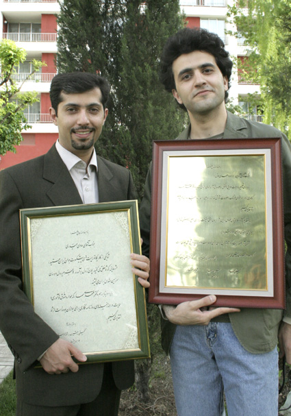 آروین" برنده دور دوم (1385) و "هادی حیدری" تقدیرشده در دوره دوم و برنده دوره ششم (1392) جایزه روزنامه نگاری امید، یادبود زنده یاد دکتر مهدی سمسار"